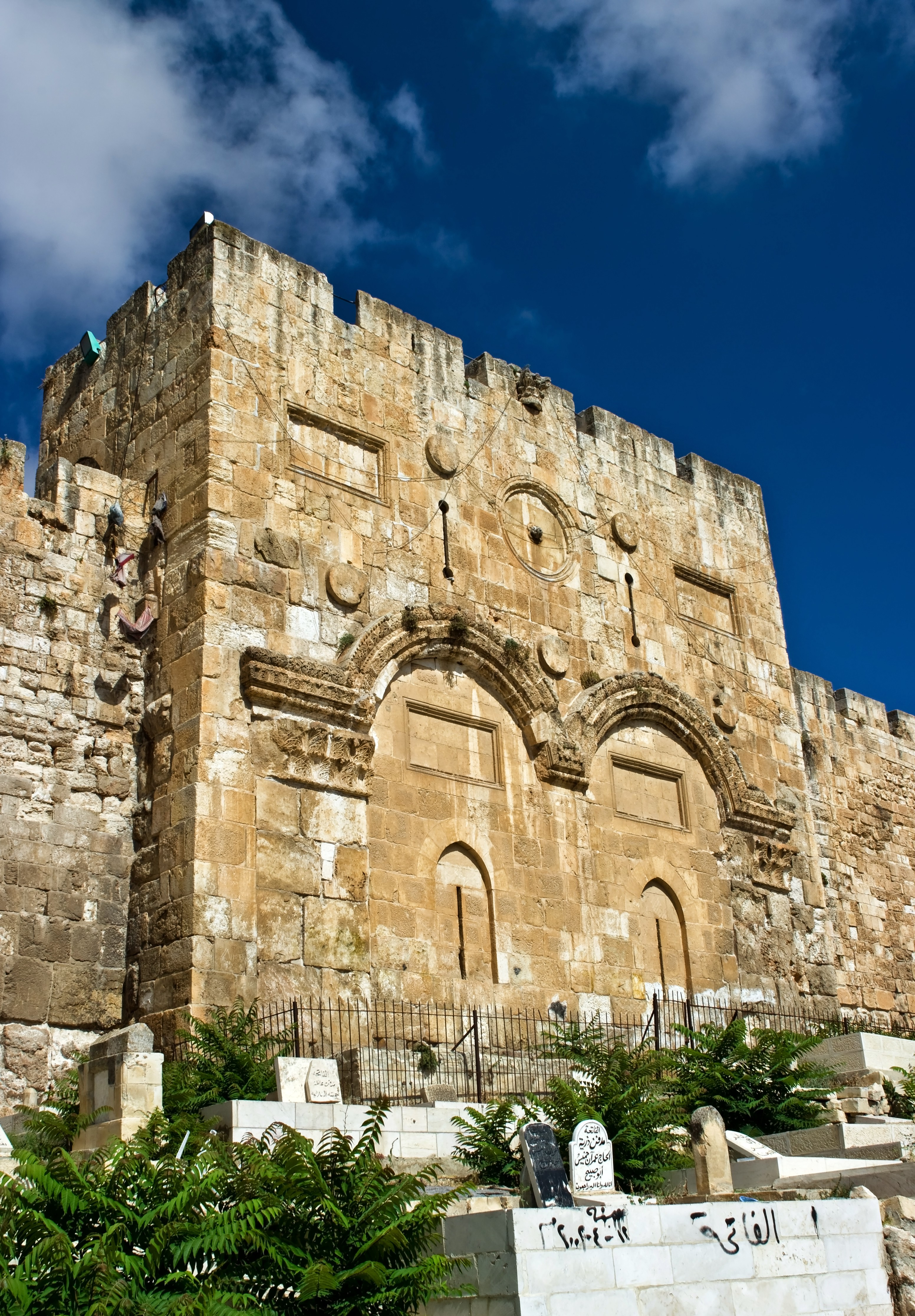 Muslim Cemetery along the Eastern Wall of the Old City of Jerusalem